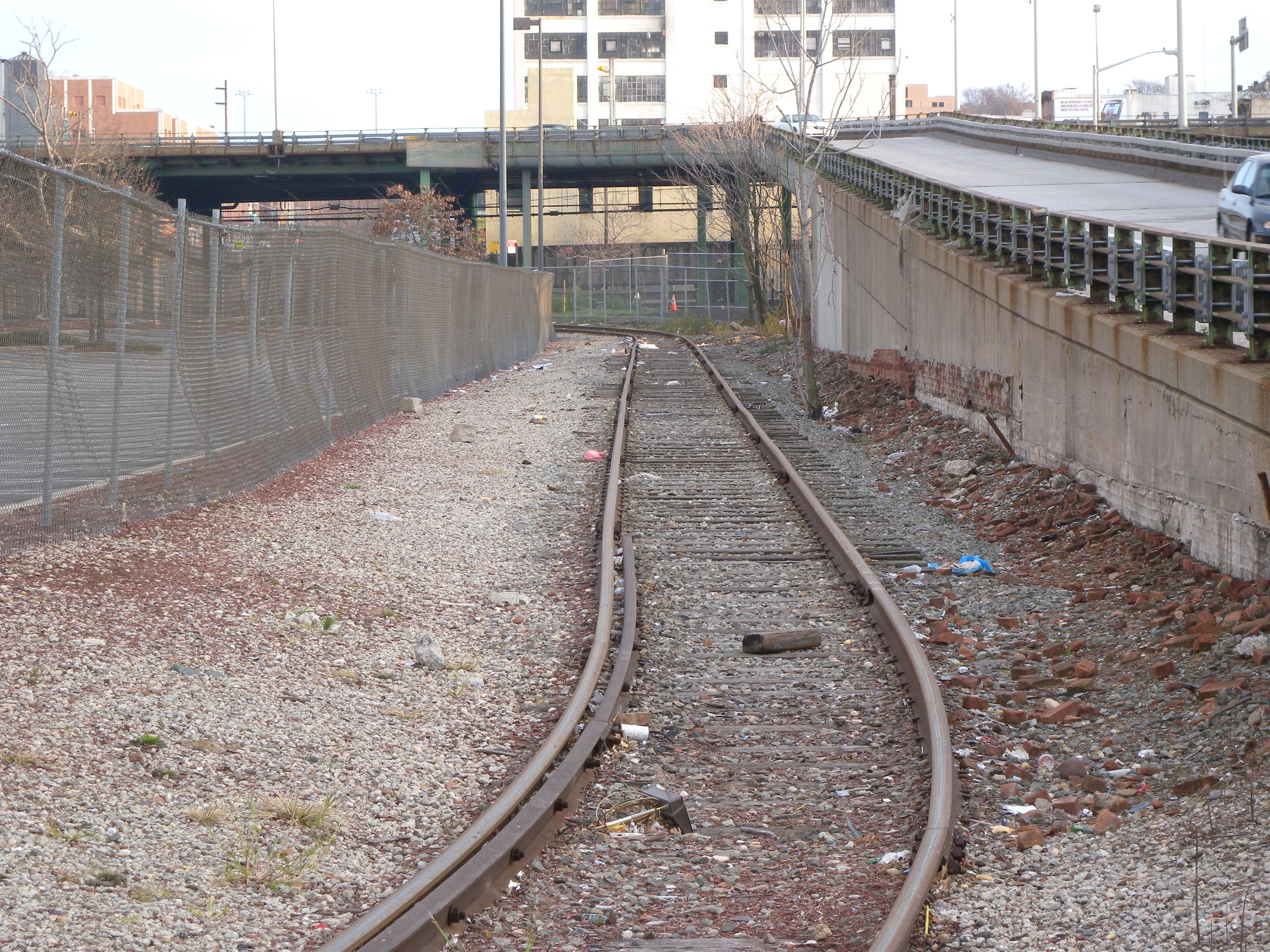 Looking southeast along a track leading from the yard in File:38st 2av yard jeh.jpg, crossing under the Gowanus Expressway towards the Culver Trench, on a cloudy Thanksgiving Day.